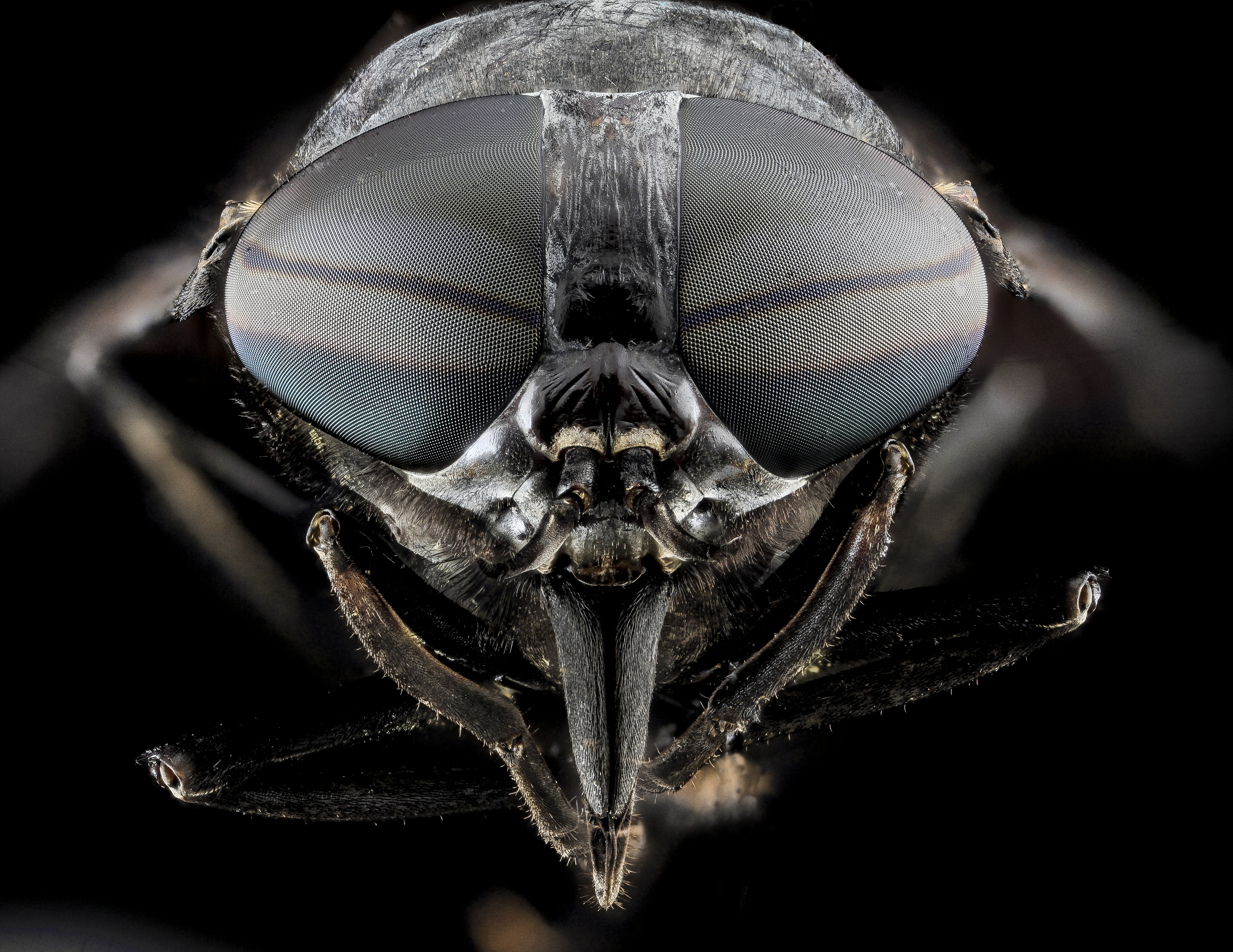 Black Horse Fly, Tabanus atratus, Upper Marlboro, Maryland